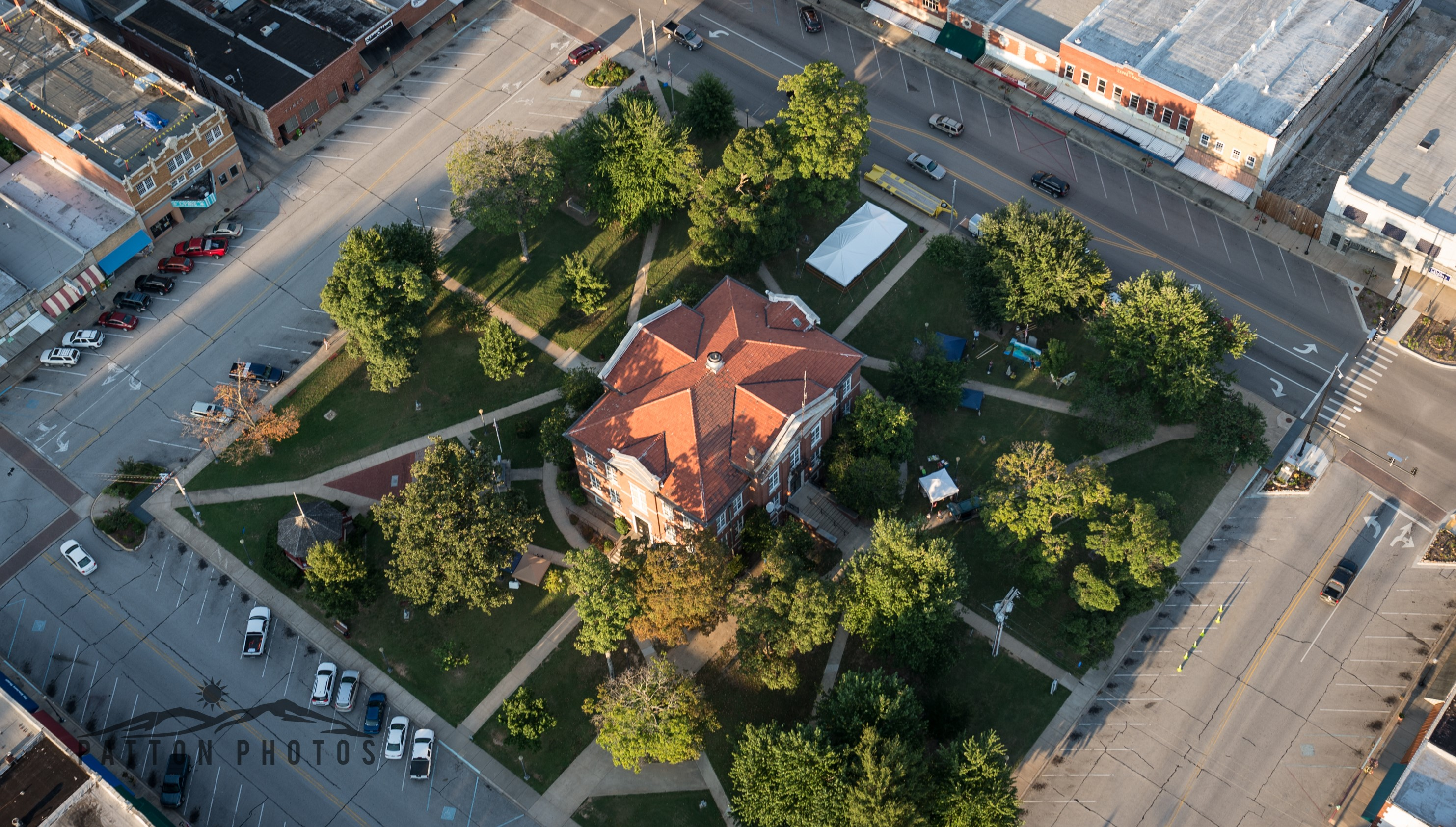 Aerial view of Downtown Harrison, Arkansas Courthouse Square located in the National Historic District.